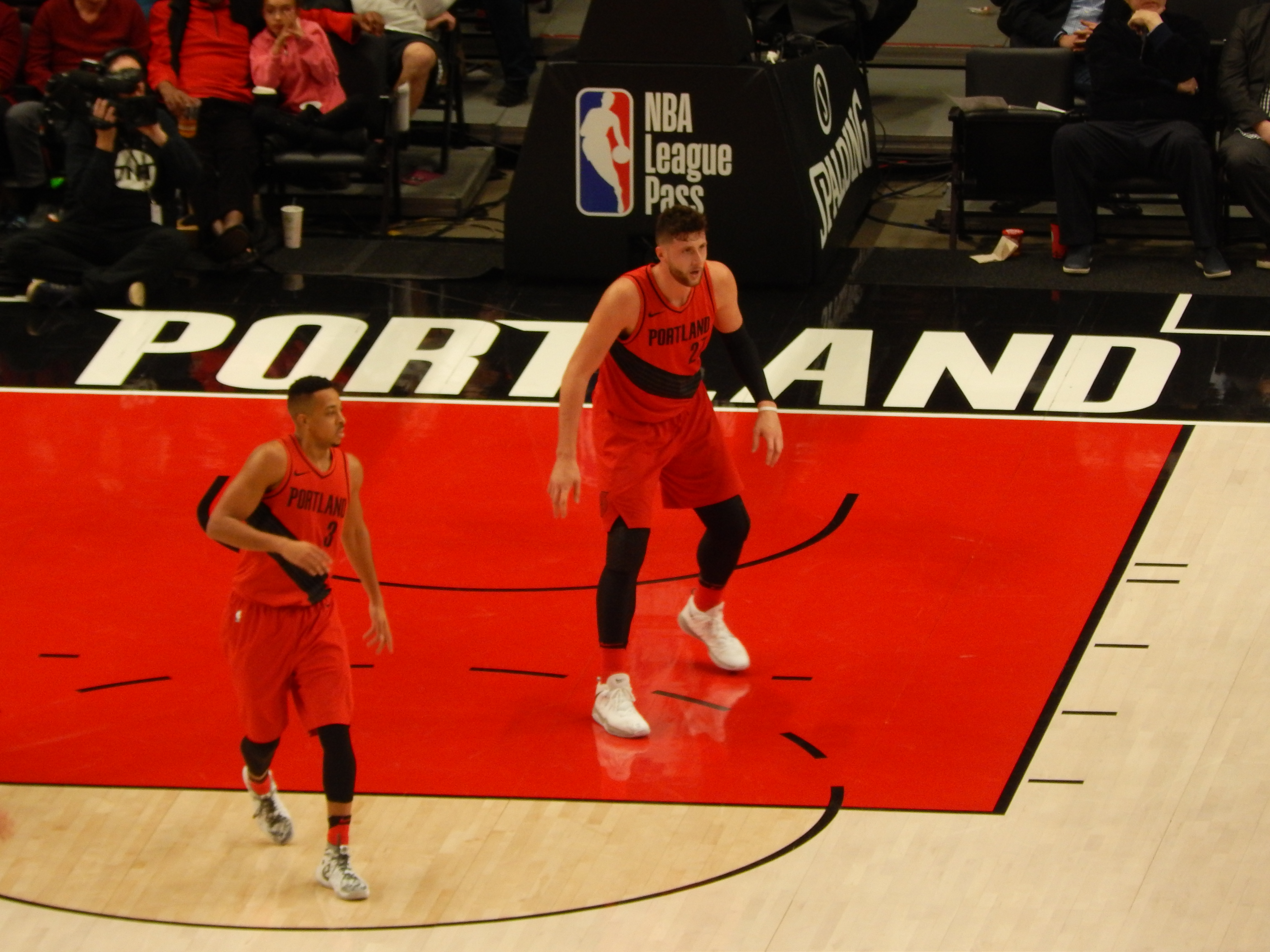 Jusuf Nurkić #27 of the Portland Trail Blazers against the Minnesota Timberwolves on March 1, 2018 at Moda Center in Portland, Oregon.